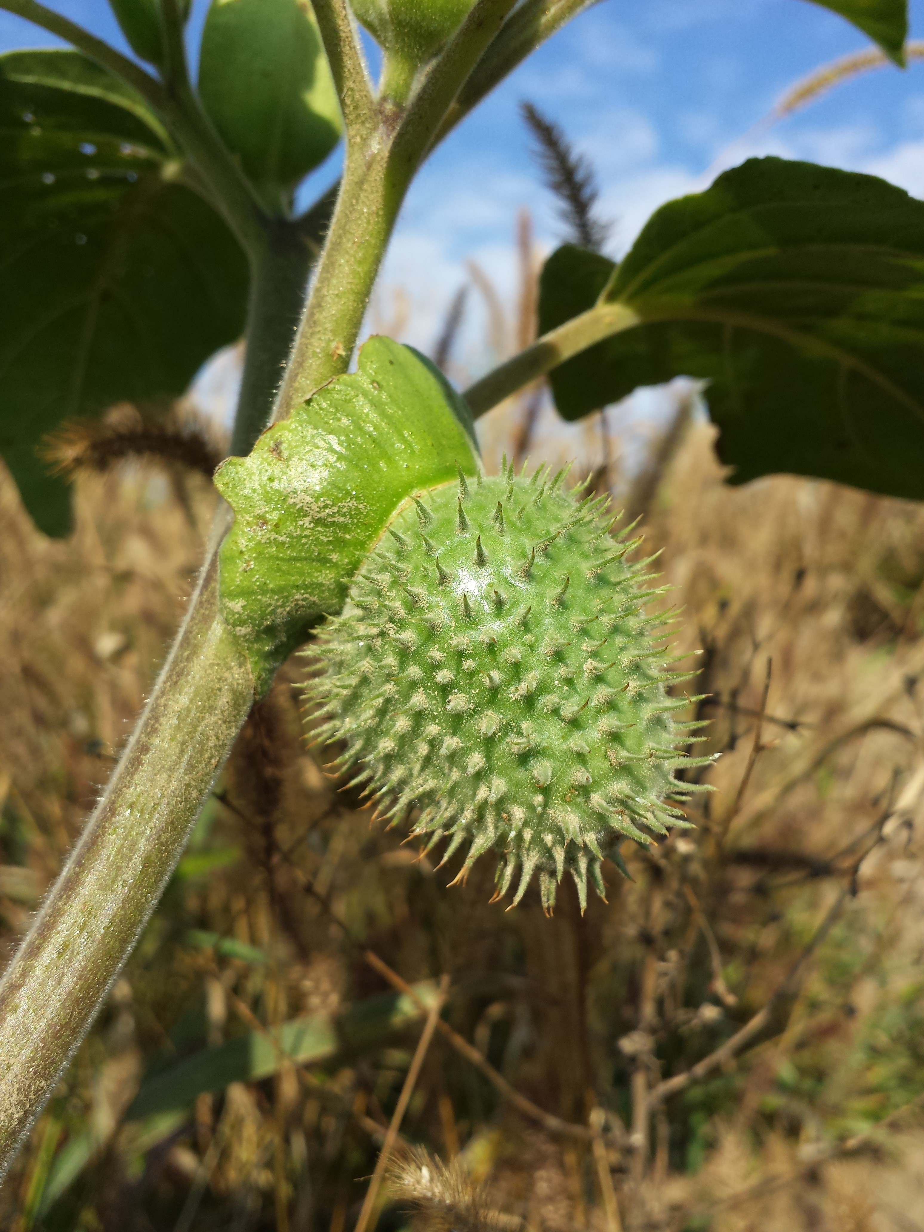 Fruit Taxonym: Datura innoxia ss Fischer et al. EfÖLS 2008 ISBN 978-3-85474-187-9 Location: next to Hatzenbach, district Korneuburg, Lower Austria - 225 m a.s.l. Habitat: quarry